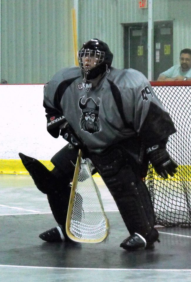 These images of Ontario Junior B Lacrosse Action action during the 2014 season are taken by Devan Mighton.